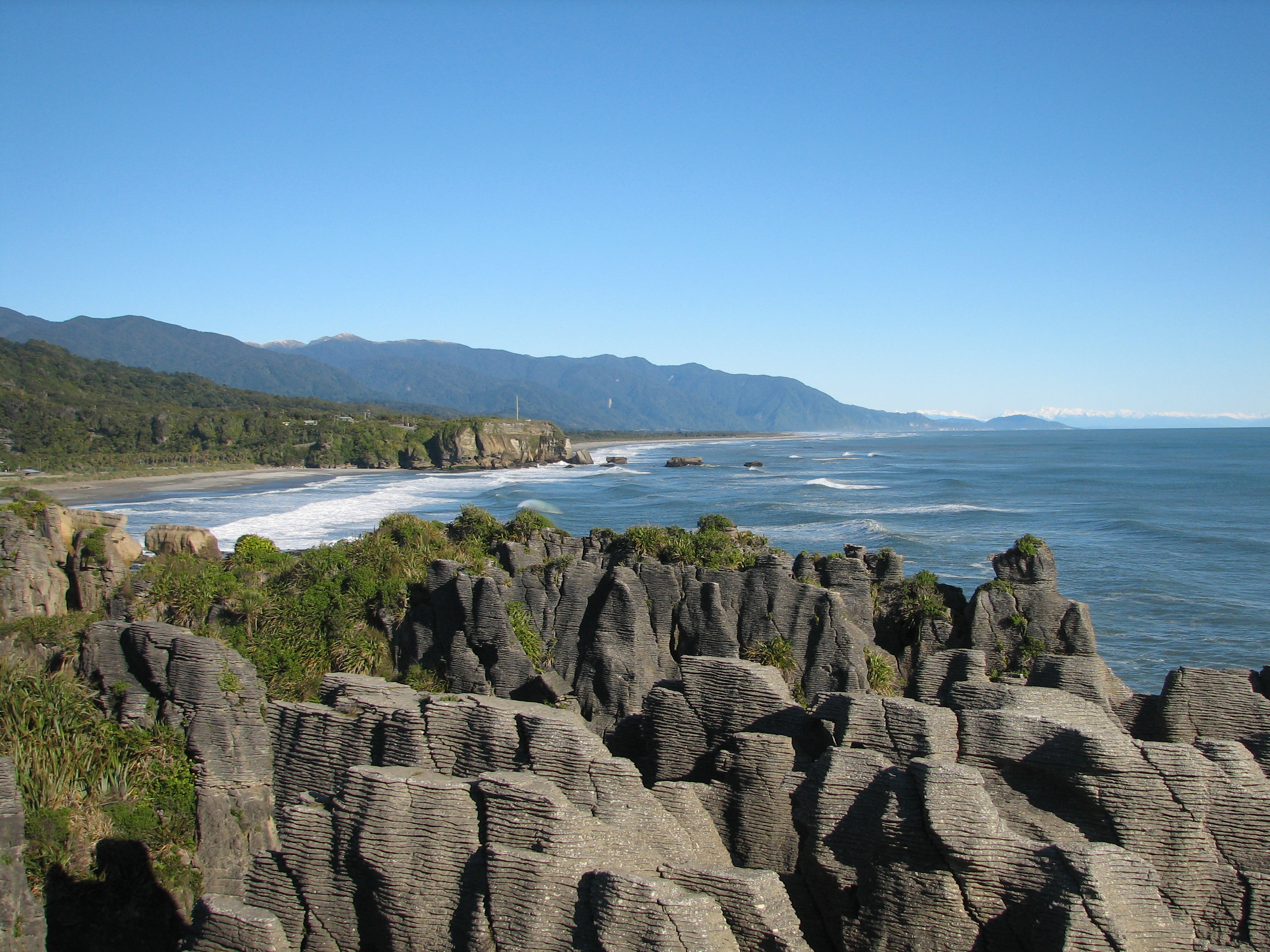 Looking south from Punakaiki on the West Coast of New Zealand. The snow on the Southern Alps can be seen in the distance.